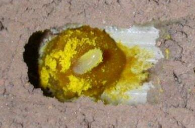 Orchard Mason Bee egg in nest cell